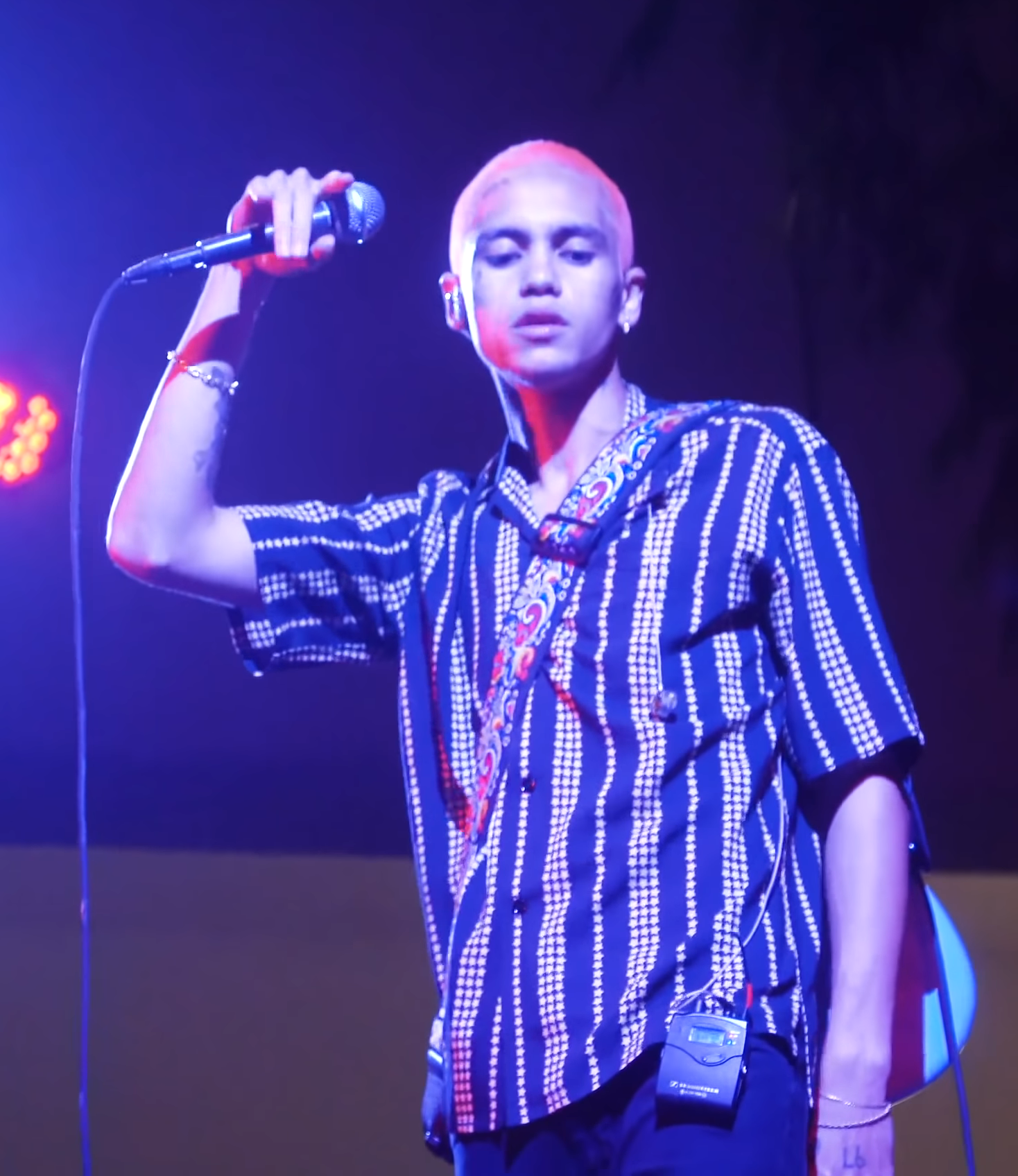 Dominic Fike performing live at the Hammer Museum, L.A. in May 2019